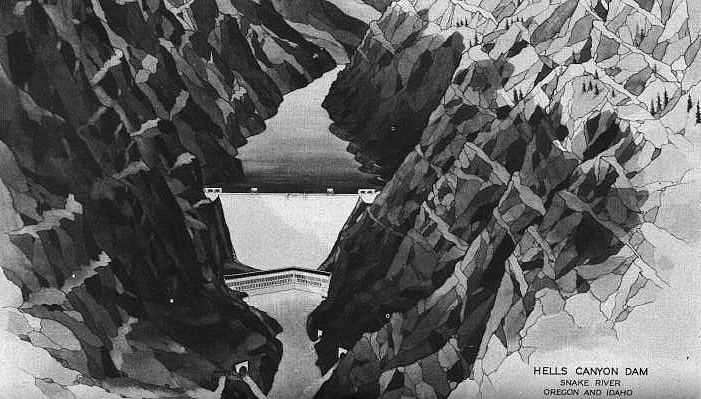 Original proposal for Hells Canyon High Dam, on the Snake River between Idaho and Oregon, USA. The dam was eventually built as a much lower structure.